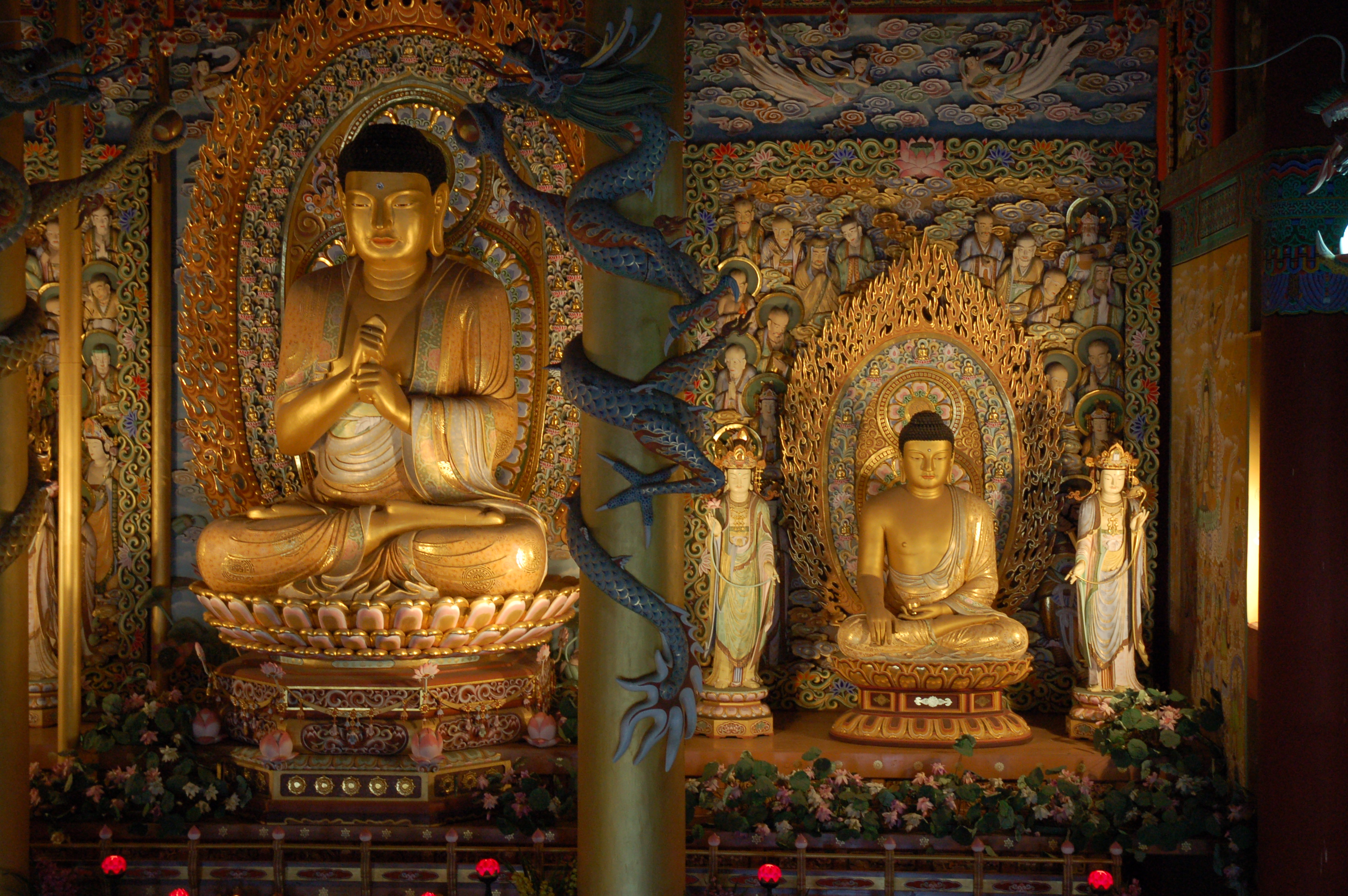 Depiction of the Buddha from an altar. Listed as "Jeju, Korea" by the author.